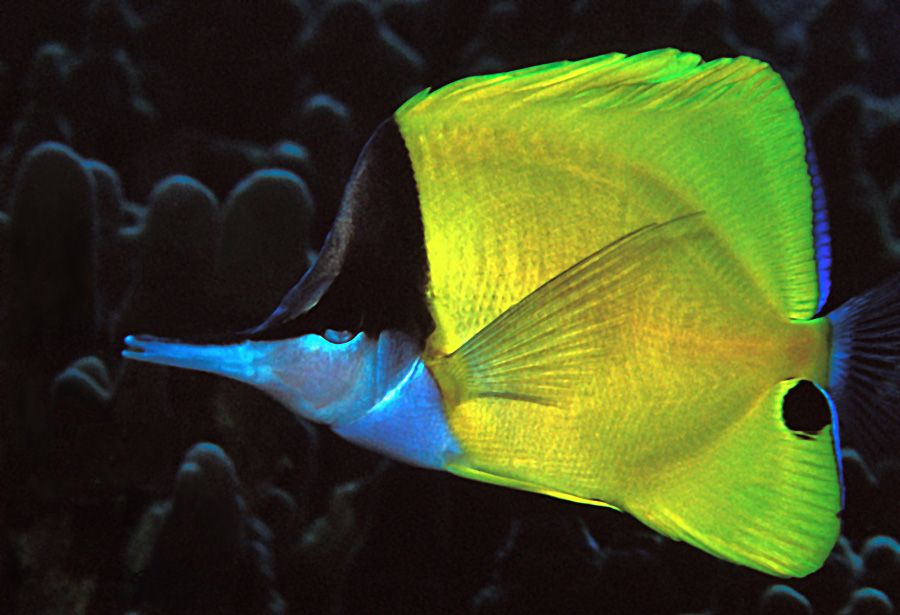 Forcipiger flavissimus Even though it came out a bit under-exposed, I liked the framing of this Forceps Butterflyfish. Taken at La Perouse Bay, September, 2004.